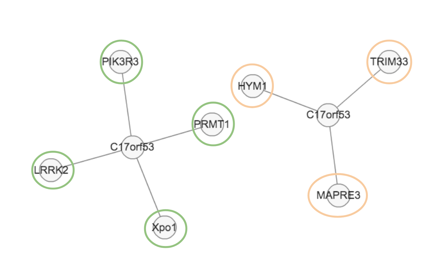 This figure displays the protein interactions c17orf53 has.